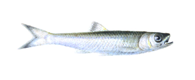 Watercolor painting of Notropis coccogenis (now Luxilus coccogenis), also known as warpaint shiner. 8 x 17 cm.